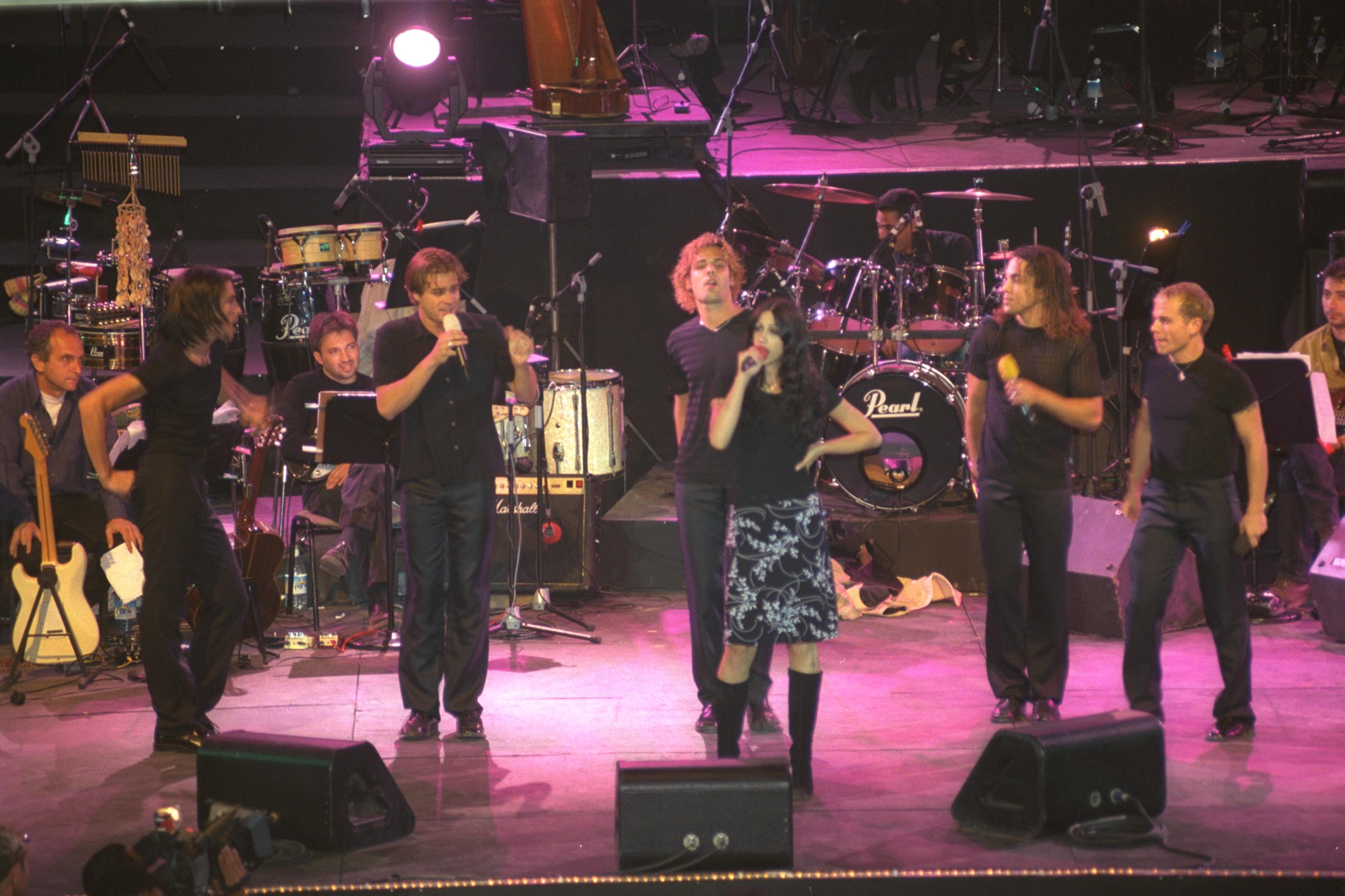 The band "Hi Five" & singer Iggie Waxman performing songs by poetess Naomi Shemer during an evening saluting her songs at Jerusalem's "Sultan's Pool".